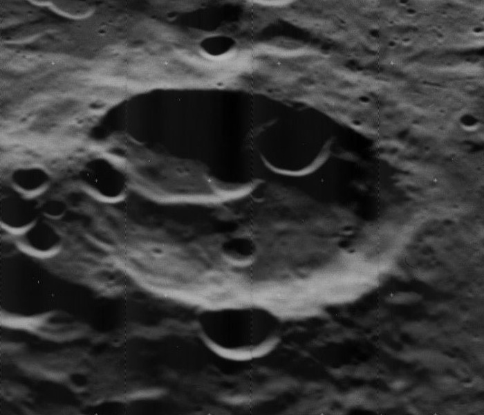 Oblique view of Strömgren, on the far side of the moon, facing west.